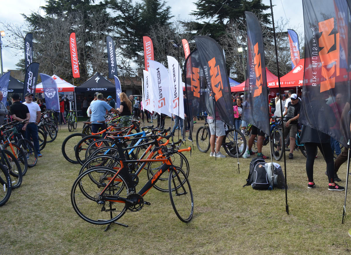 Bicycles and stands in Rio Pinto Challenge in the city of La Cumbre. May 2019.